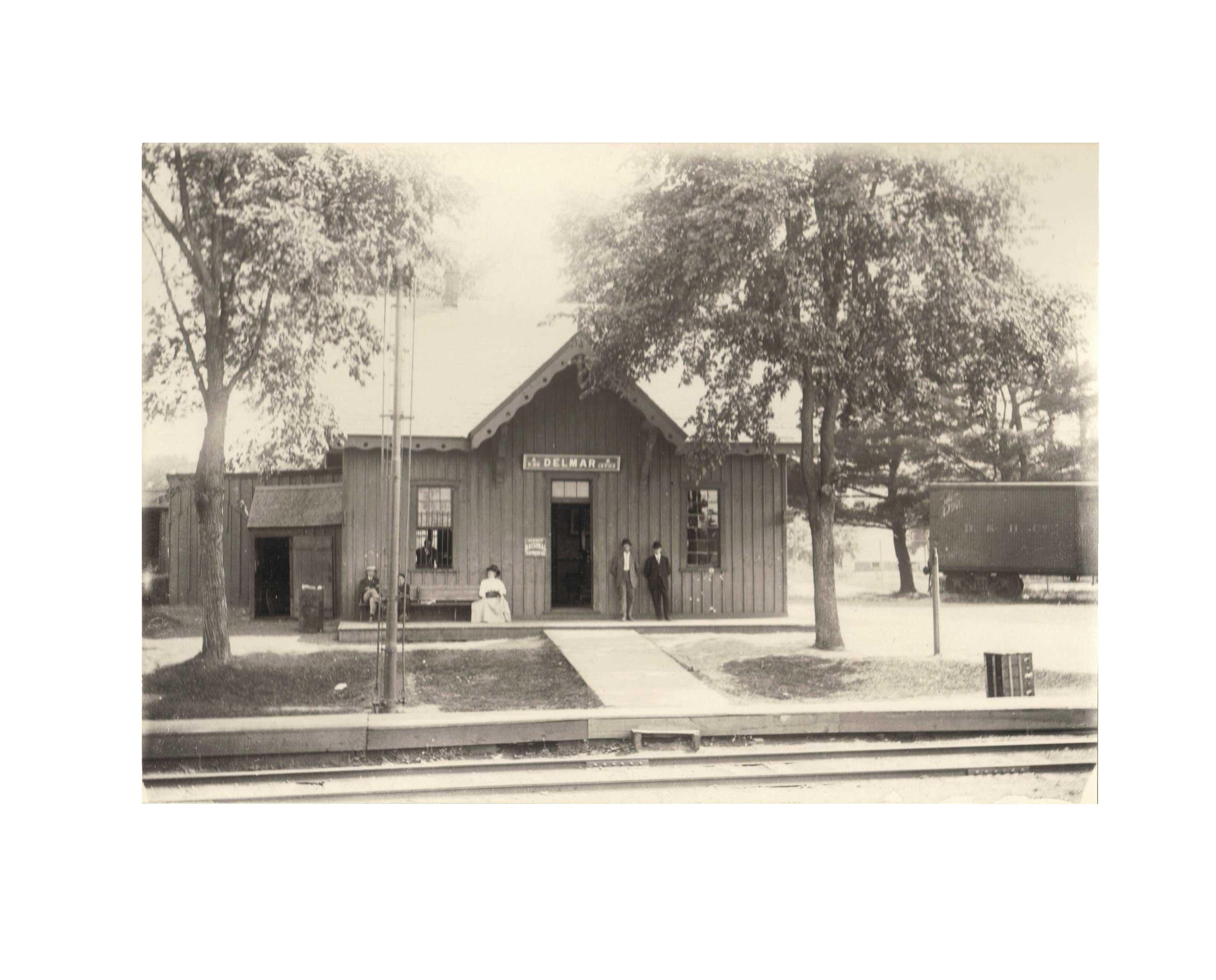 Delmar Station of the Albany and Susquehanna Railroad (later merged into the Delaware & Hudson Railway) in the Town of Bethlehem, New York. Built 1866.